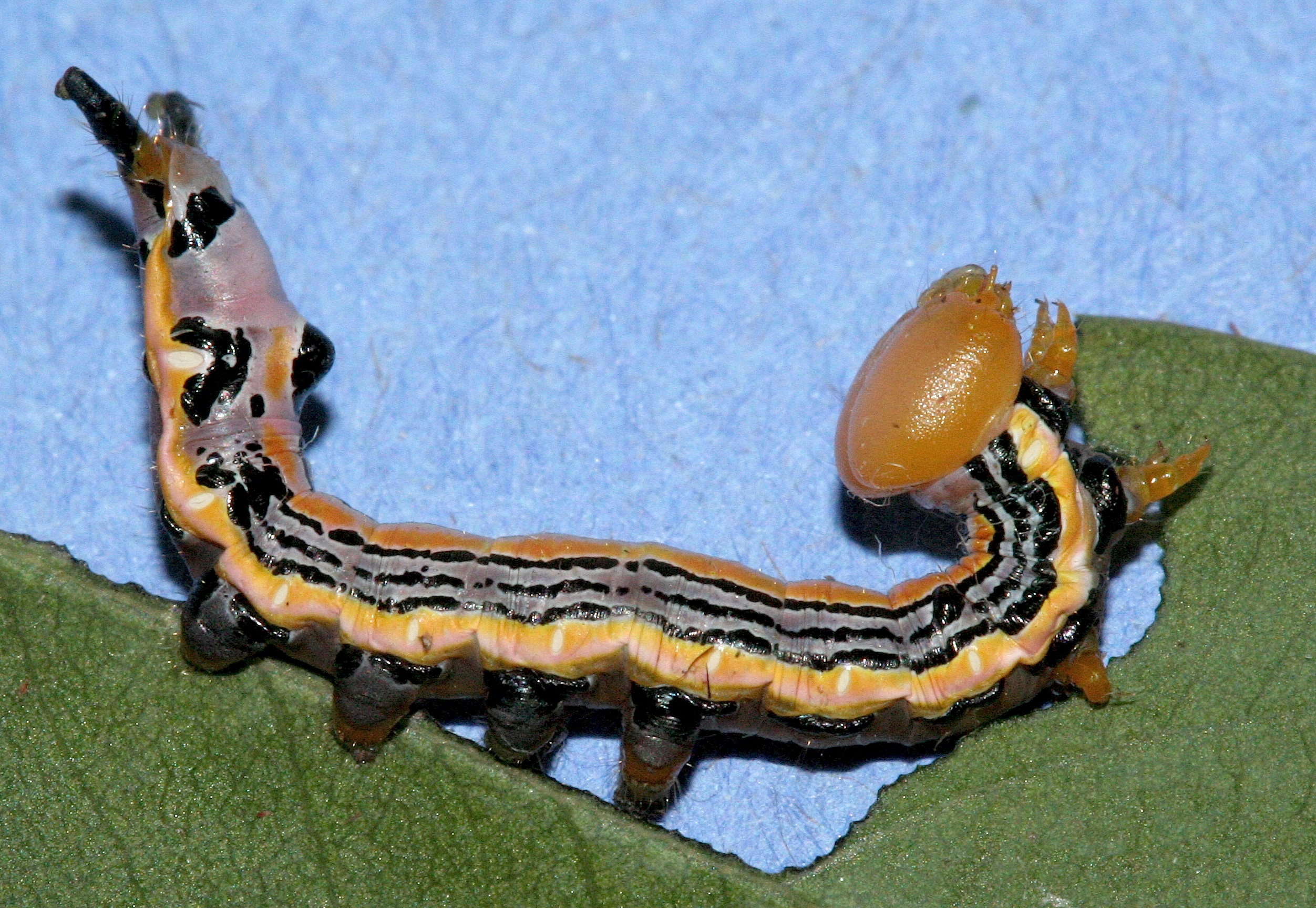 Black-spotted Prominent larva (Dasylophia anguina)